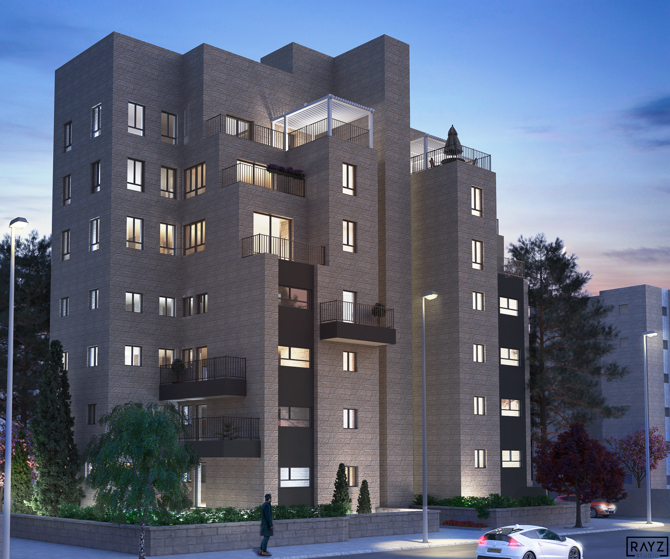 A night Visualization for a building.